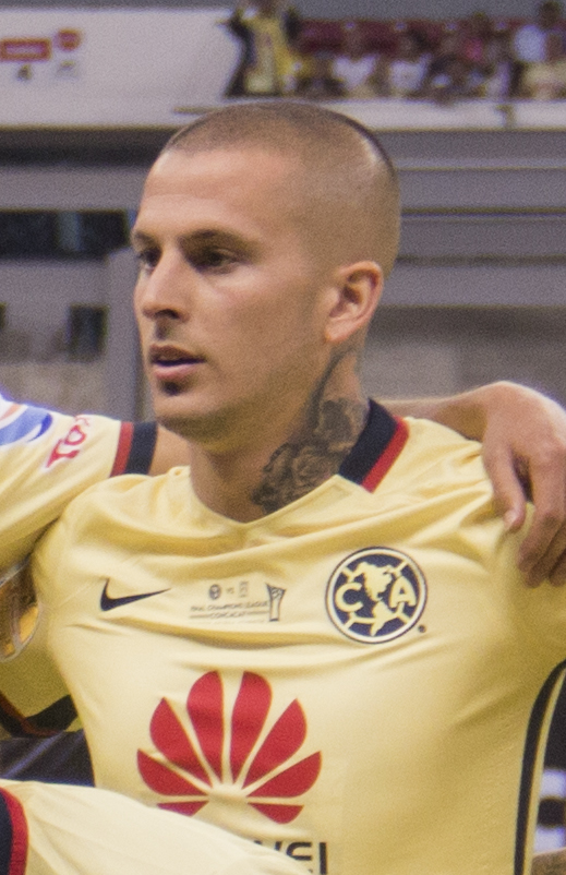 América